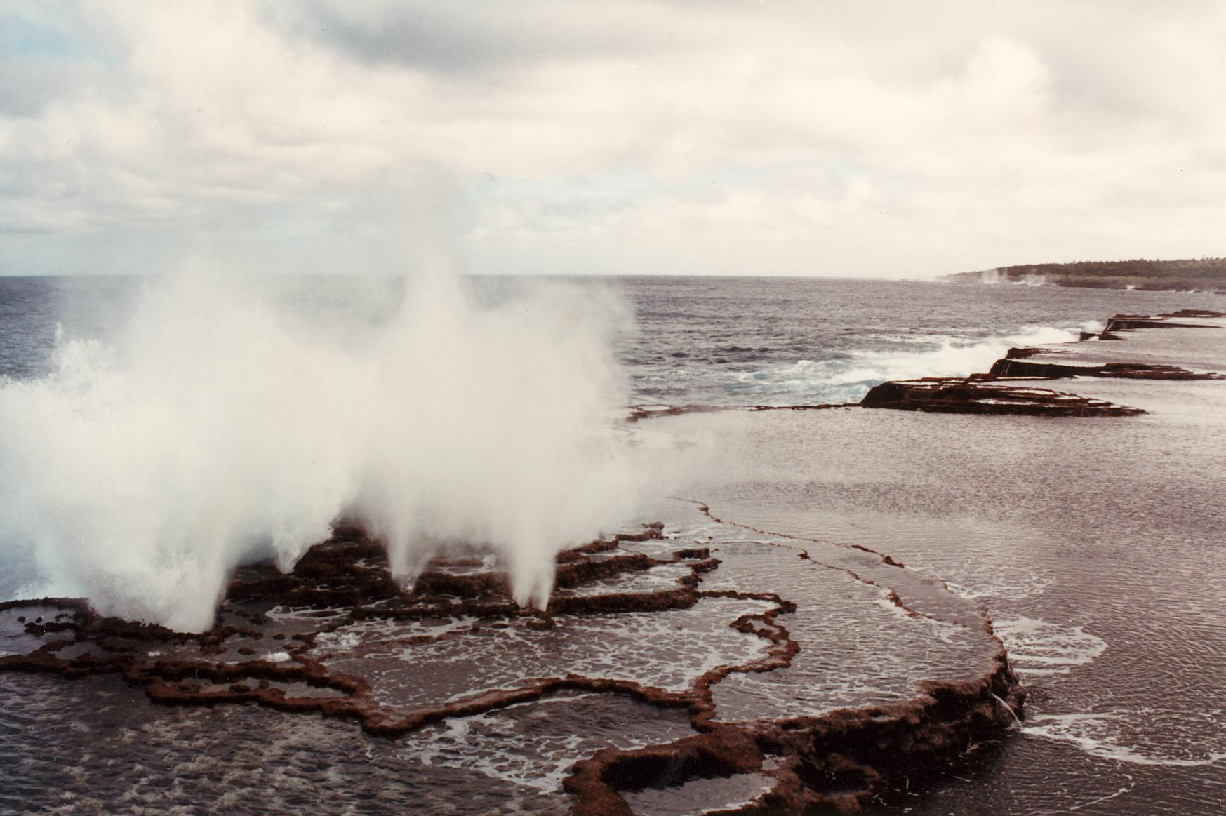 Mapu A Vaea blowholes, Tongatapu, Tonga, picture taken by uploader on visit 1990